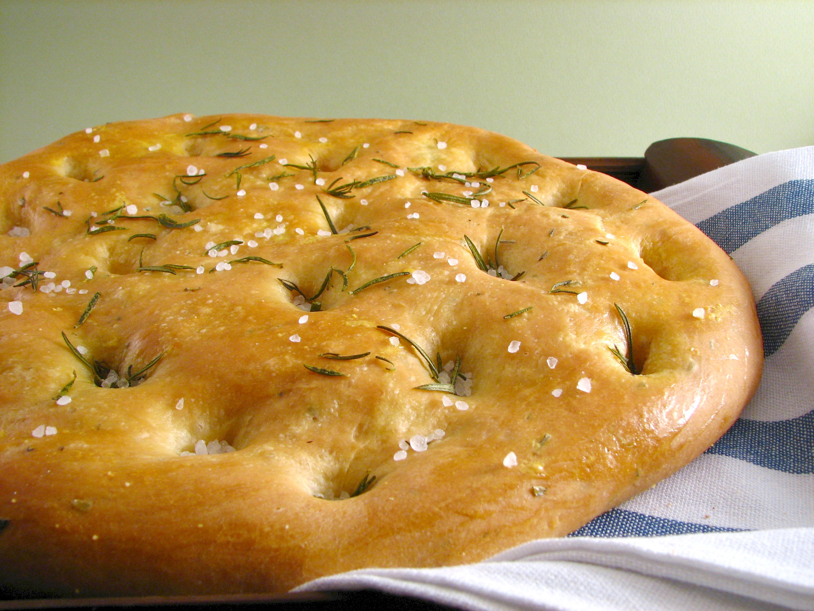 Some fresh herbs from her garden -- some sweet basil, thyme, lemon thyme and rosemary.